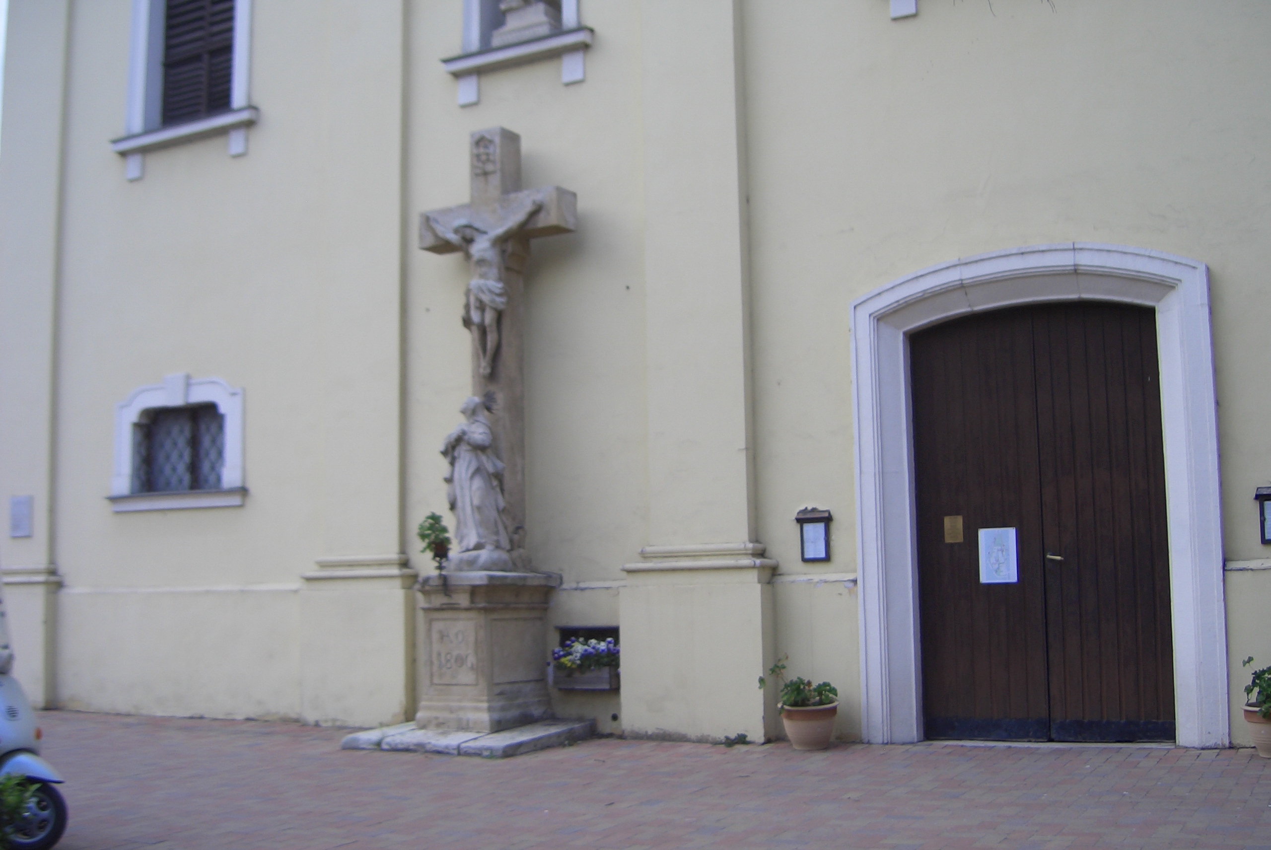 Saint Catherine Church (Tabán) front side and stone cross